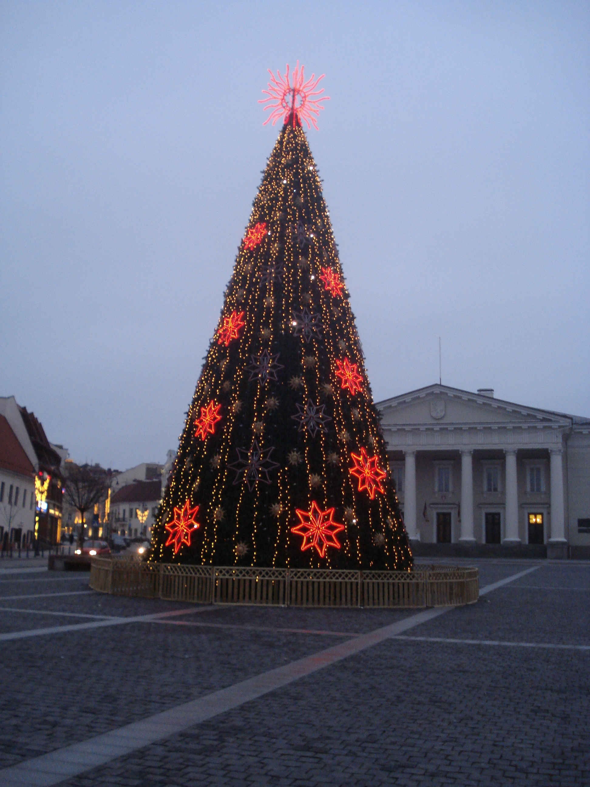 Christmas tree in Town hall Square in Vilnius